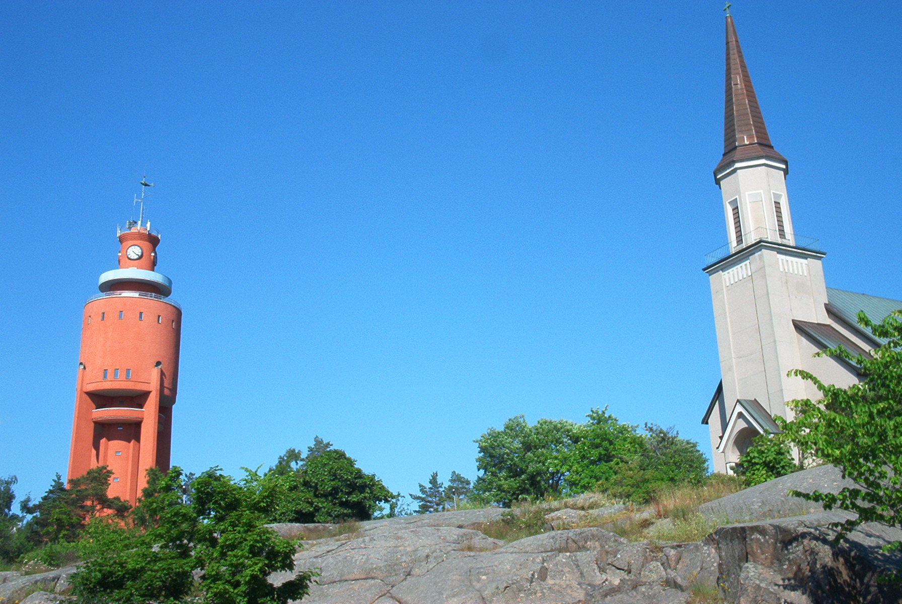 The water tower and church in Hanko (Hangö). The church has been designed by architect Jac. Ahrenberg and it was built in 1892.